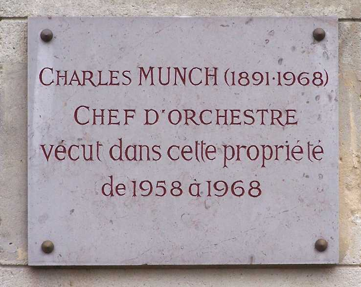 Commemorative plaque for Charles Münch at Emile Dreux Place, in the village of Voisins, Louveciennes, Yvelines, France “ Charles Munch (1891-1968) Chief Conductor lived in this property from 1958 to 1968 ”